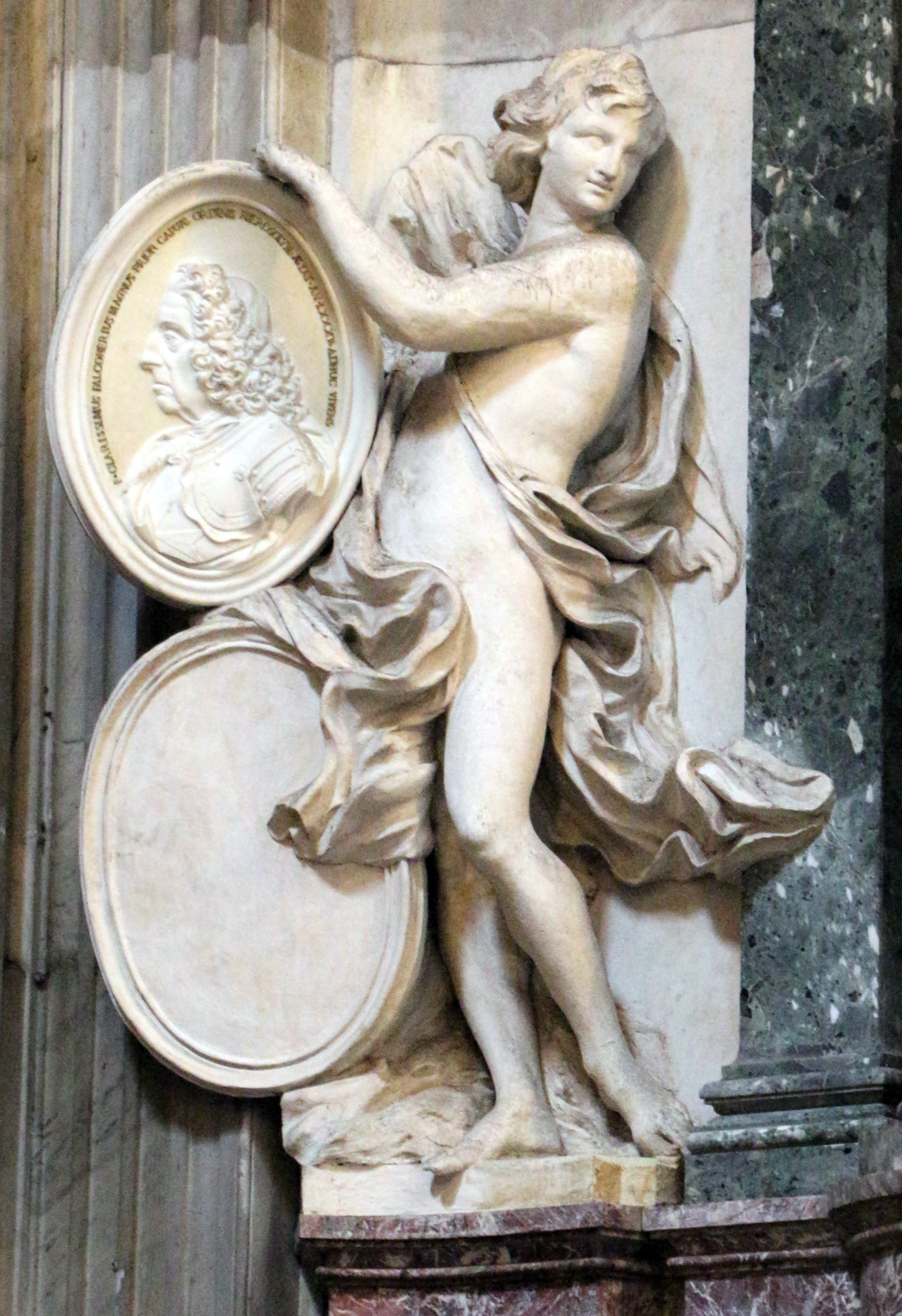 San Giovanni dei Fiorentini (Rome) - Interior